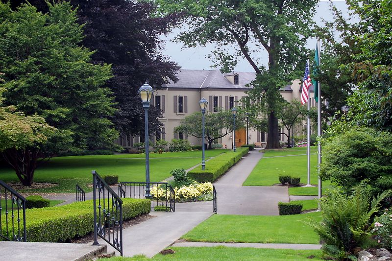 Chateau Ste. Michelle, Woodinville, Washington, U.S. Photo by Ron Zimmerman. Use only with credit.